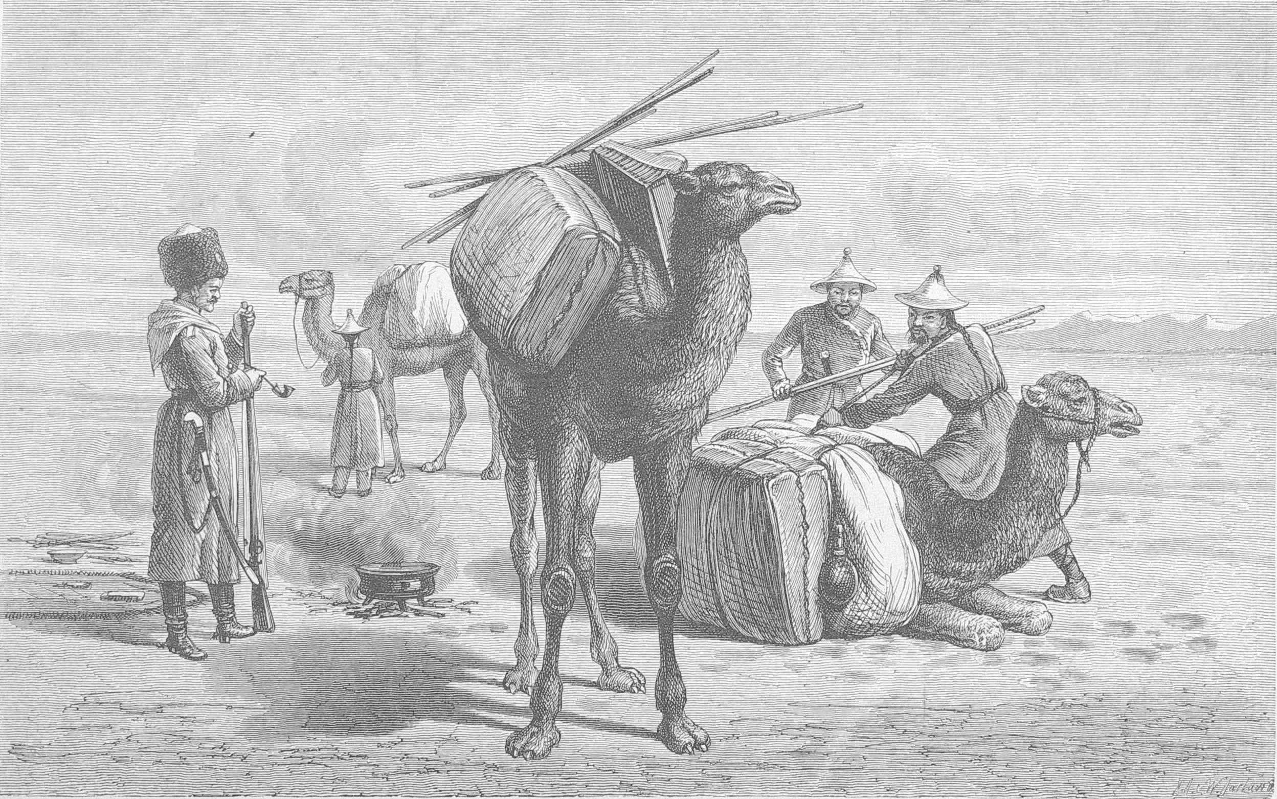 caption: "Russisch-chinesische Post. Nach einer Skizze von A. Larsen auf Holz gezeichnet von H. Heubner."